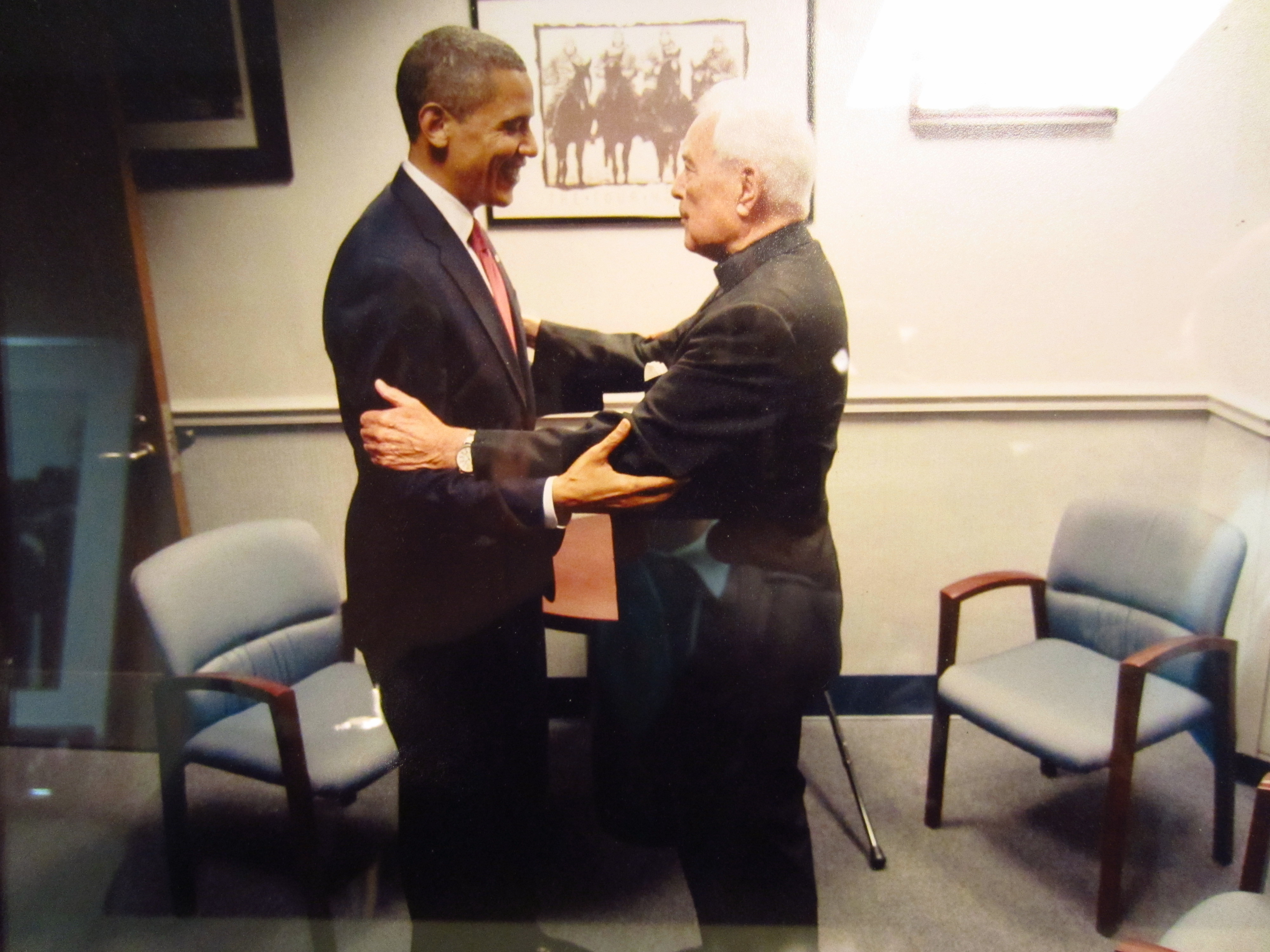 Barack Obama meets Theodore Hesburgh at Notre Dame.